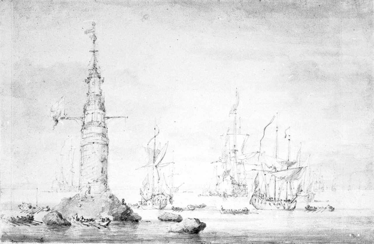 The Eddystone lighthouse Updated February 2016) The Eddystone lighthouse drawn probably immediately after its completion. Several barges rowing round it; and to the right at anchor a yacht stern view, a small frigate starboard bow view, and in the distance a tree-decker with flags at he main and mizzen. The Eddystone lighthouse, built by Henry Winstanley, was begun in 1696. The light was exhibited for the first time on 14 November 1698. It was swept away with Winstanley in it in the Great Storm of November 1703. This is an unsigned pencil and wash drawing by the Younger. The composition was known to Peter Monamy since there is a practically identical oil by him in the Plymouth Museums and Art Gallery collection. If Monamy did not copy it from some other version it is certainly possible that he owned and used this drawing, since a considerable number by the van de Veldes were advertised as being included in the studio sale that took place after his death in 1749. The Eddystone lighthouse